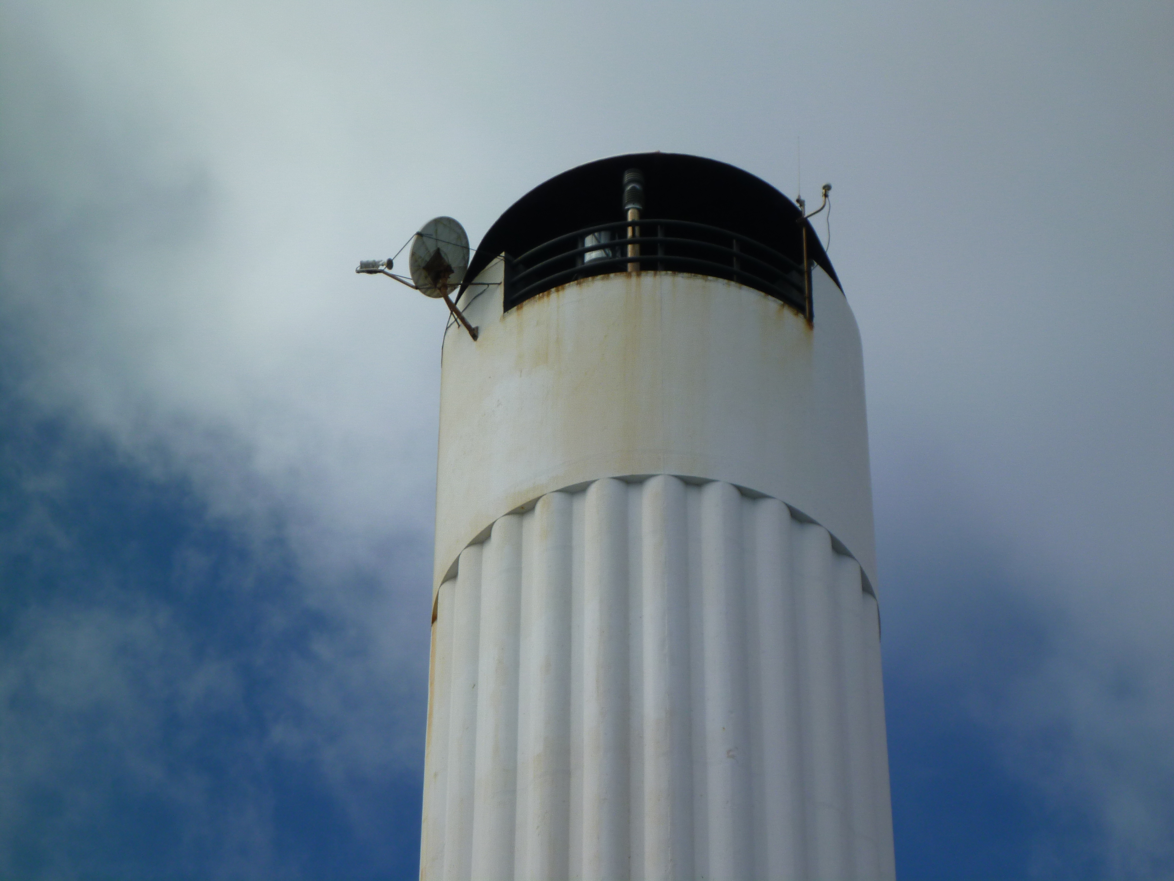 Latern of lighttower Faro de Arena Blancas